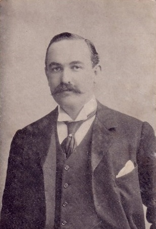 Godfrey Baring Lib Isle of Wight 06-J10 Barnstaple 11-18